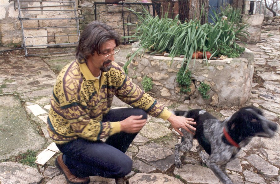 Sasha and Dasa, Tsada, Cyprus, 1998